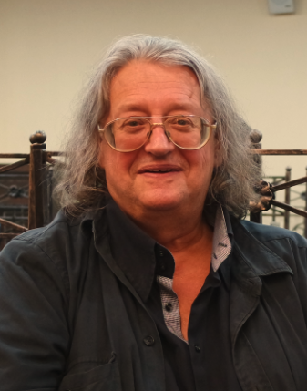 Alexander Gradsky in Moscow, 2015.